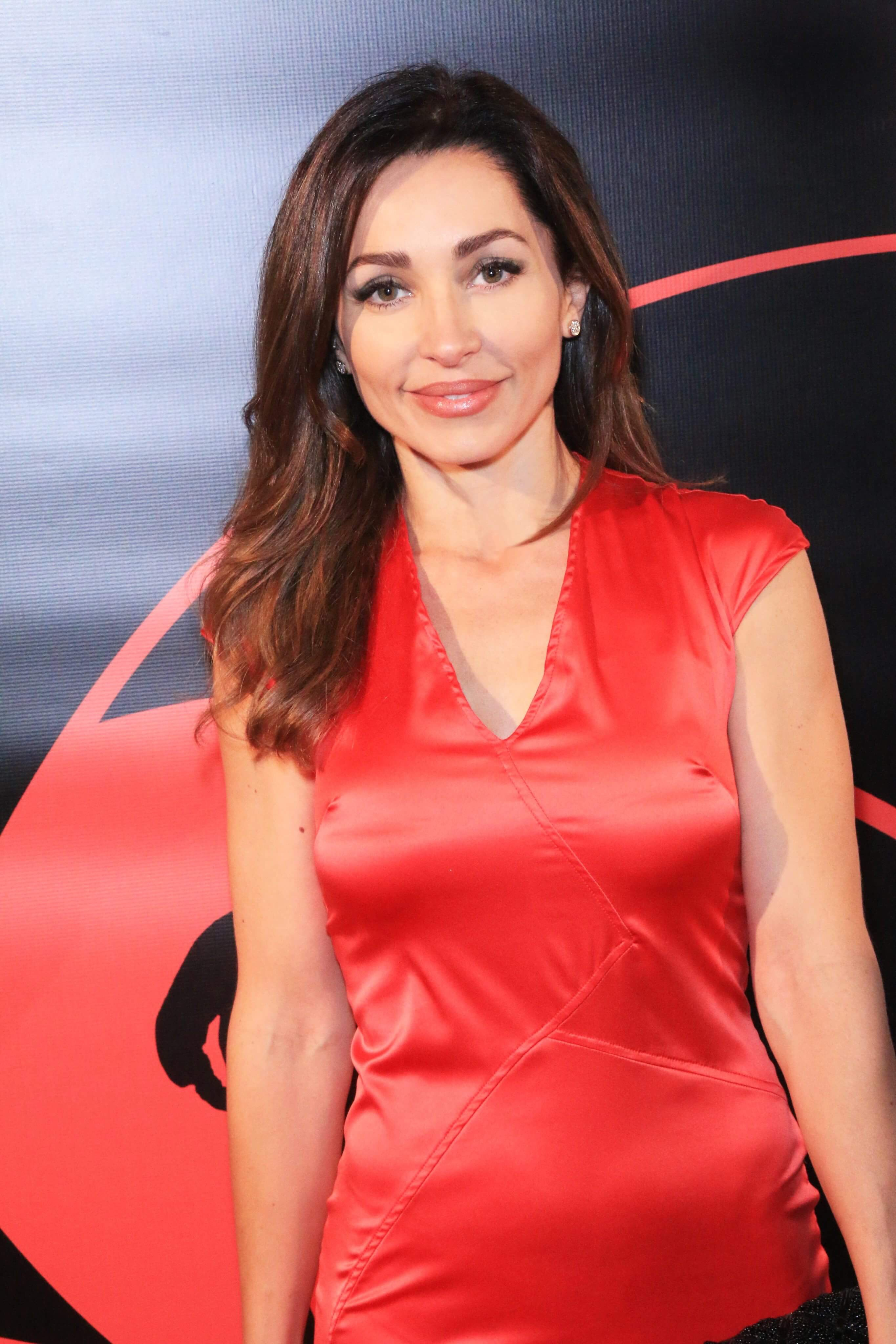 Carlotta Montanari photo taken on December 8, 2017 at the screening of film "And the Winner Isn't" at the Laemmle Ahrya Fine Arts Theatre in Beverly Hills